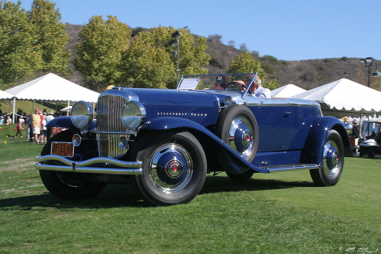 1930 Duesenberg J Murphy Disappearing Top Torpedo Convertible Coupe. At 1947 Delahaye 175 at Newport Beach, CA, Concours d'Elegance, Strawberry Farms.